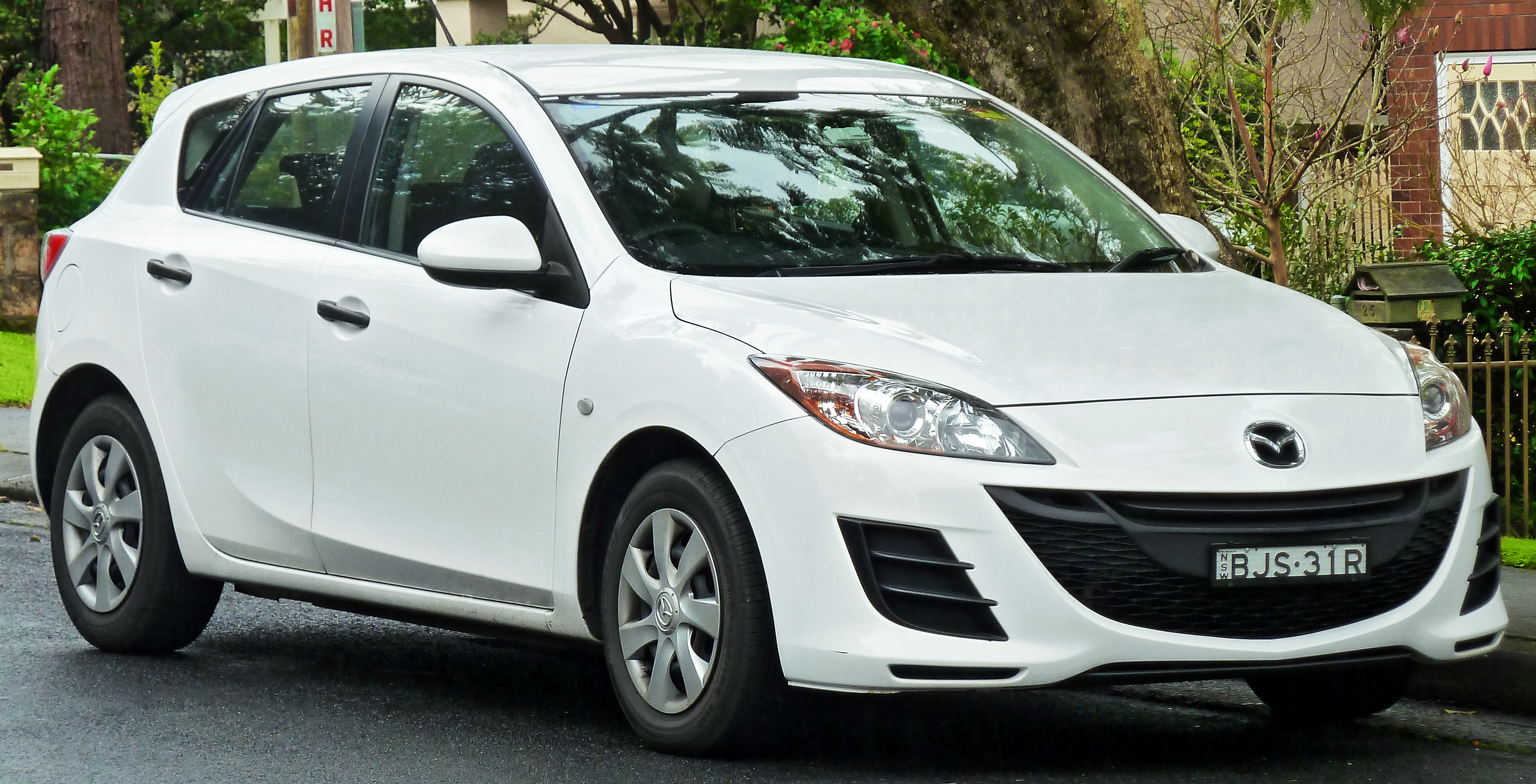 2009 Mazda3 (BL) Neo hatchback. Photographed in Roseville, New South Wales, Australia.